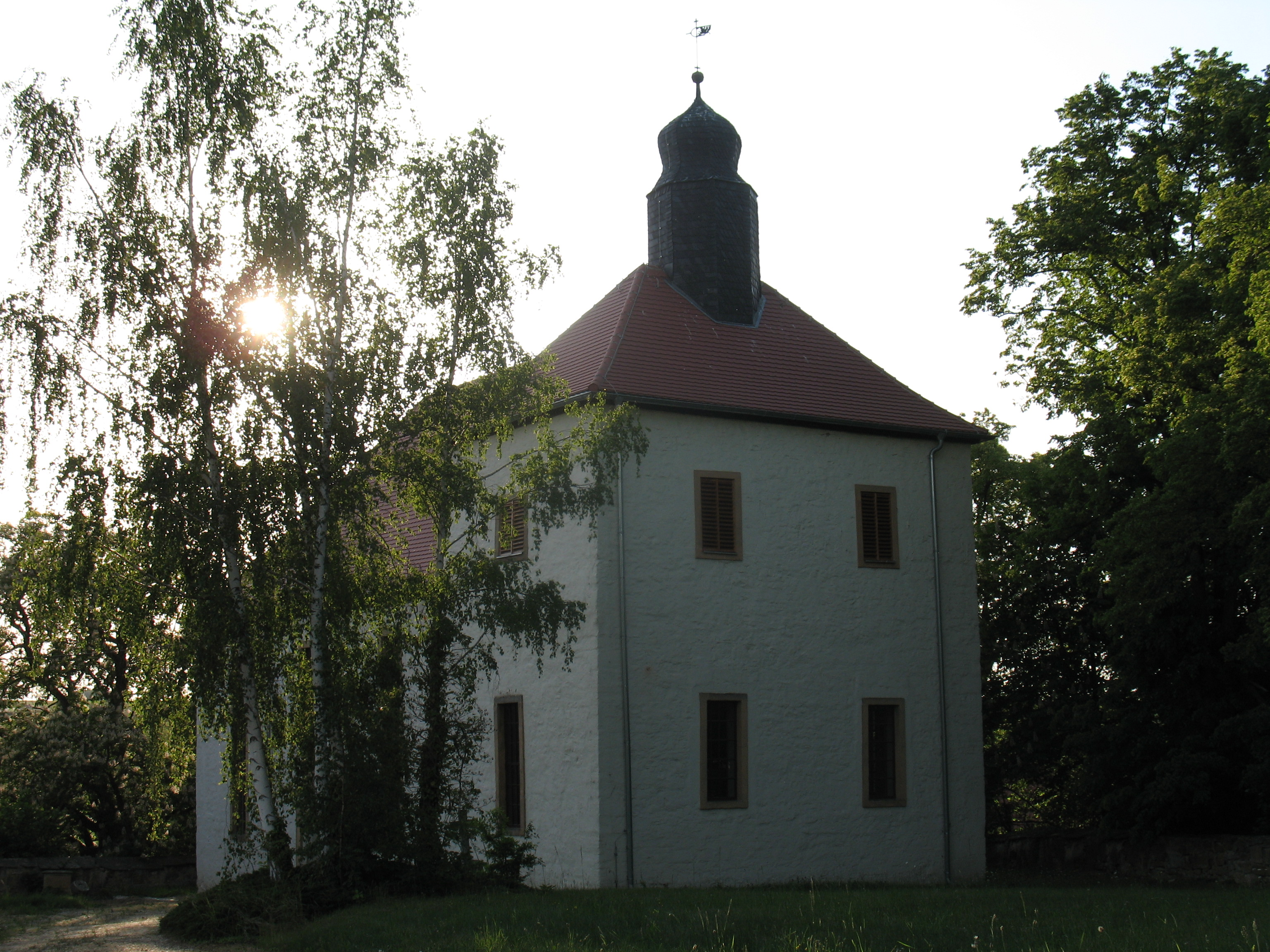 Church in village Zschorgula, Nautschütz, Germany